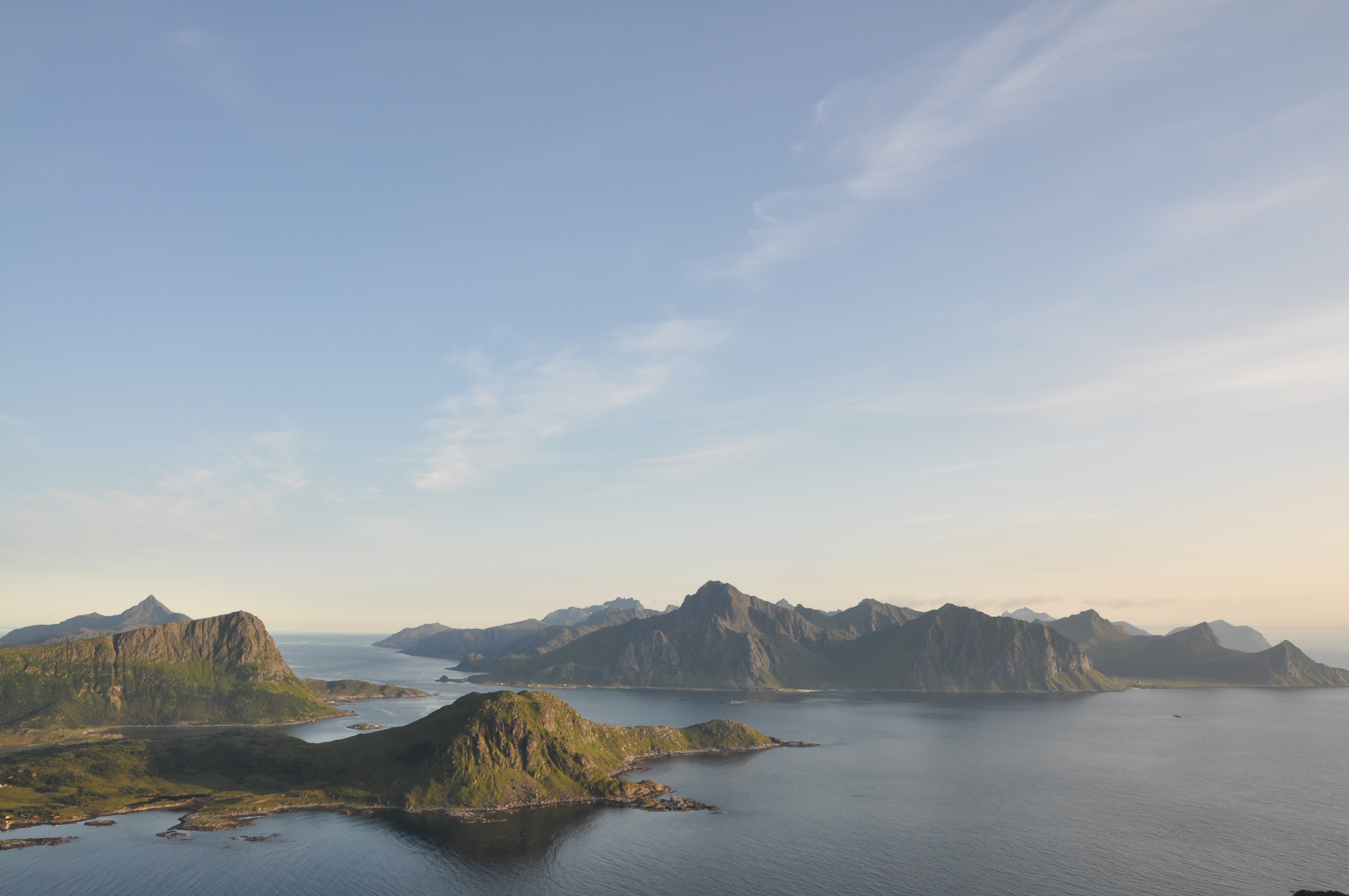 Vestvågøy, Nappstraumen and Flakstadøy, Lofoten, Norway.